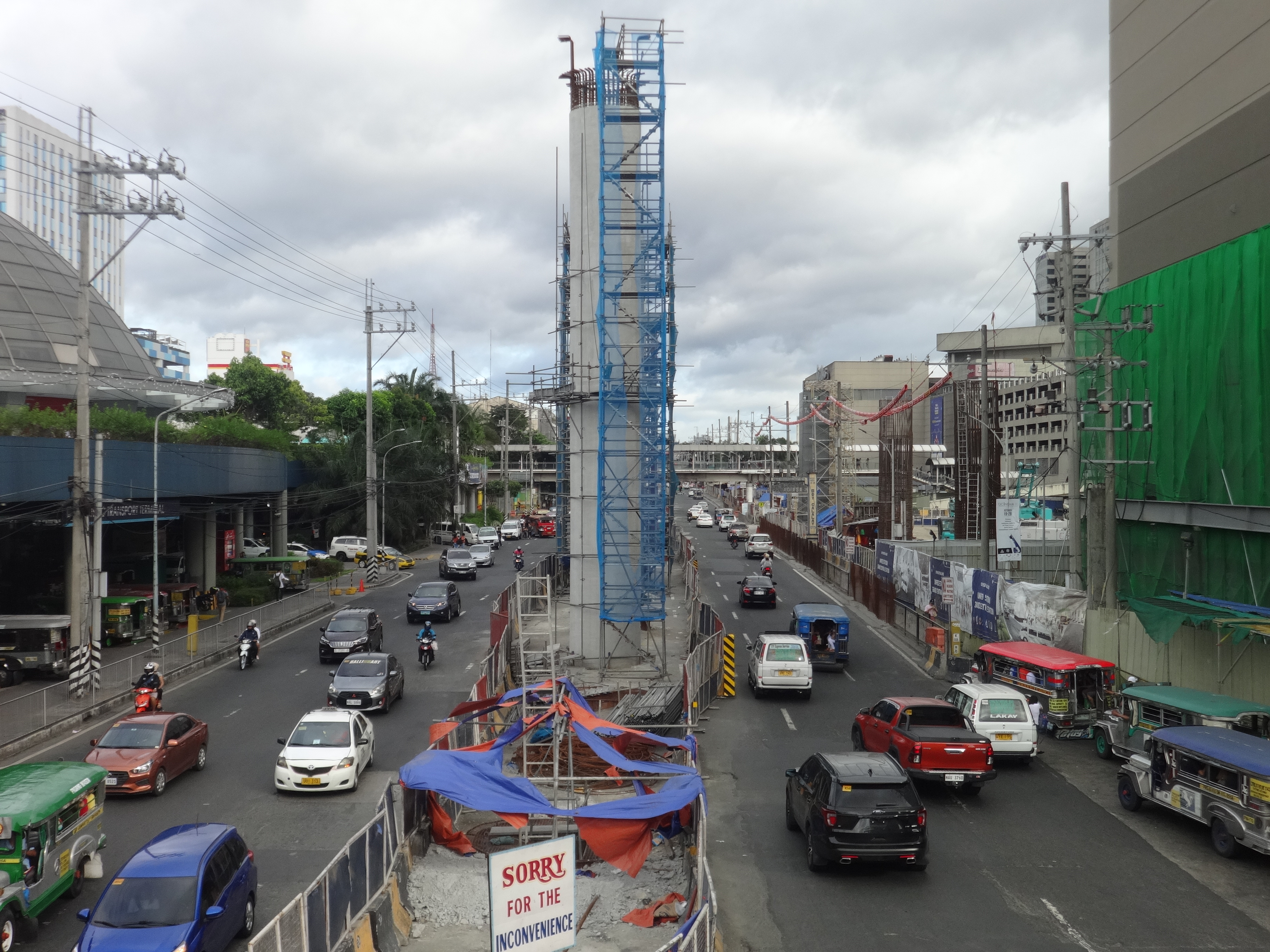 North Avenue and MRT-7 project in Quezon City